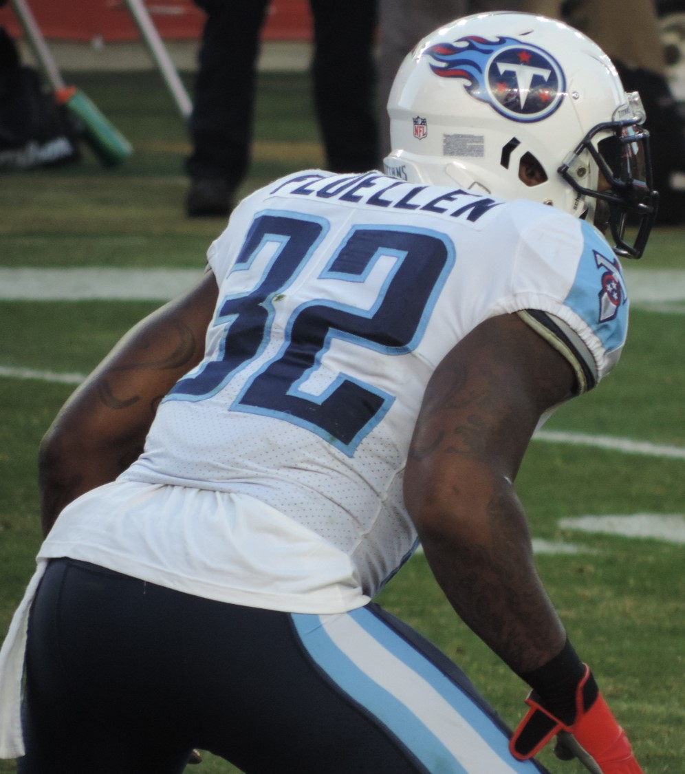 David Fluellen with Titans in 2017